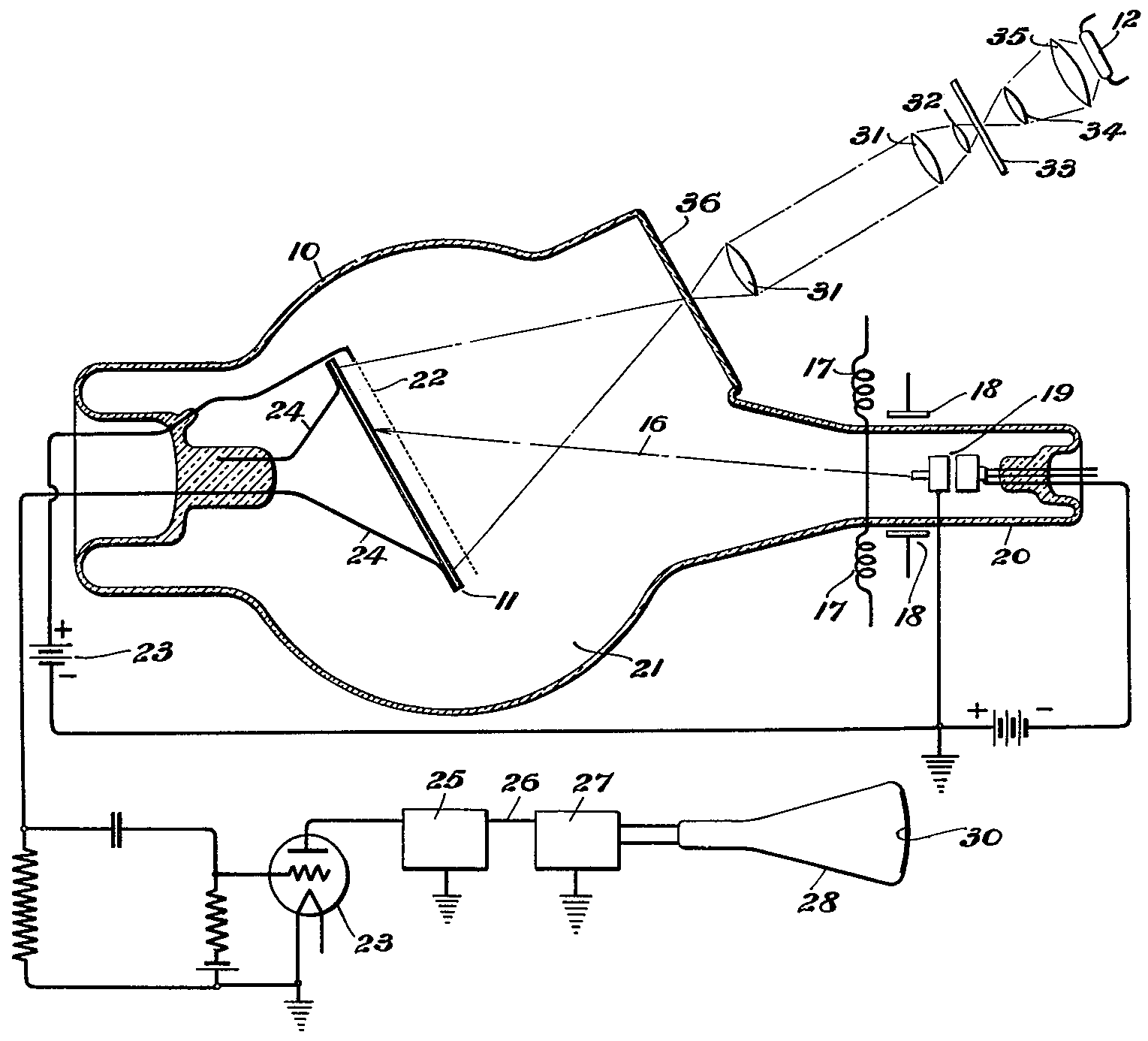 First diagram of an iconoscope television camera tube, one of the earliest practical video camera tubes, invented by Vladimir Zworykin, from his 1931 US patent. Zworykin patented the tube for use as an ultraviolet video microscope, but applied it to the new expanding technology of television.